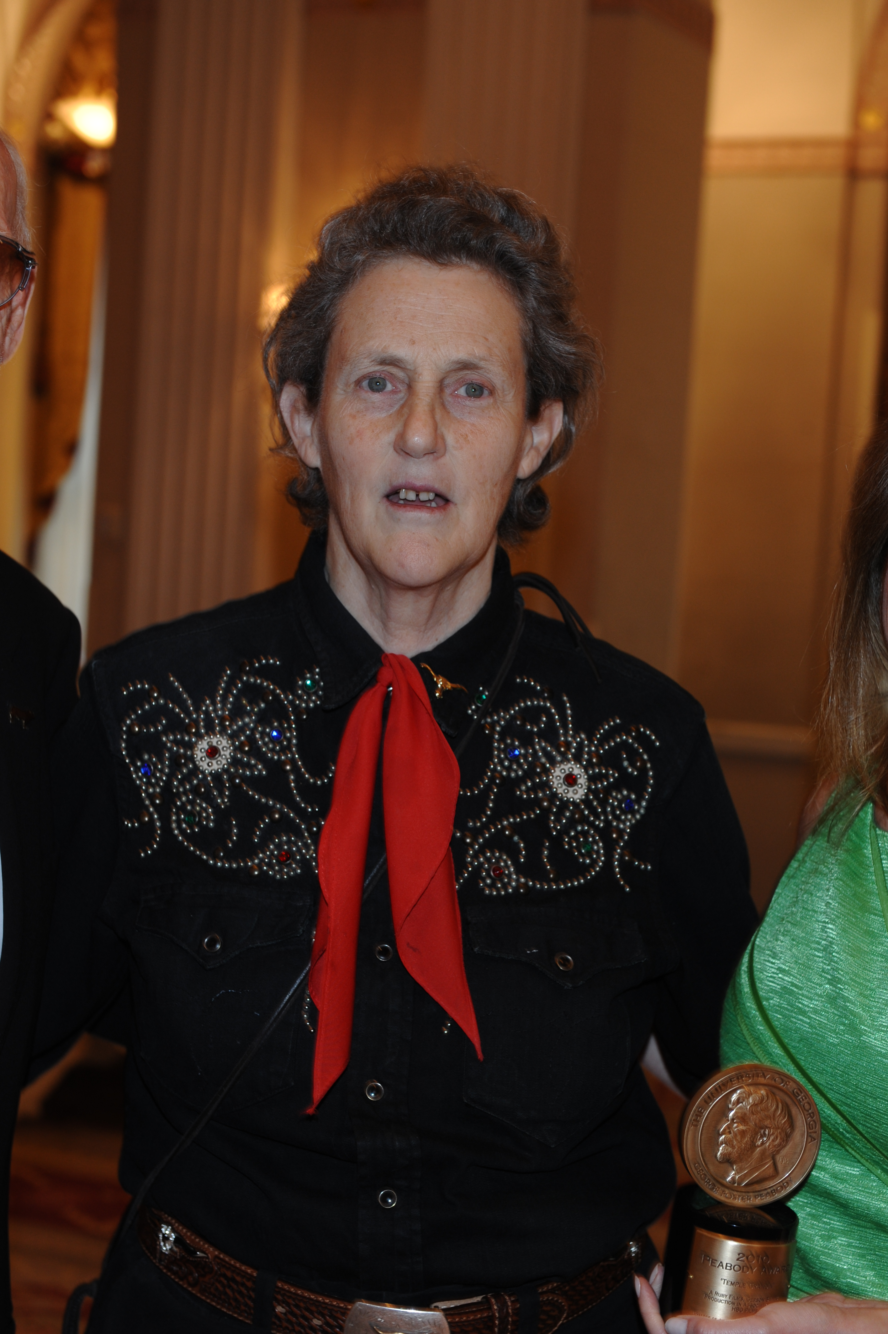 PHOTO CREDIT: ANDERS KRUSBERG / PEABODY AWARDS 70th Annual Peabody Awards Luncheon Waldorf=Astoria Hotel May 23, 2011